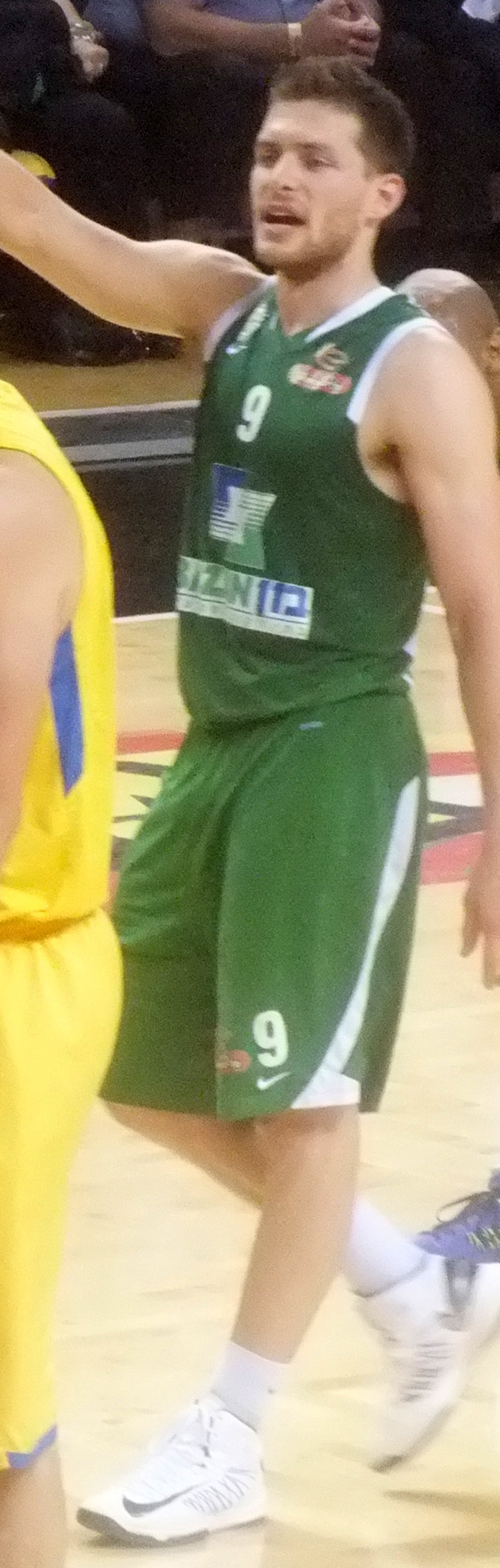 Mekel wearing the Maccabi Haifa team's outfit at a match of the 2012/13 Season.